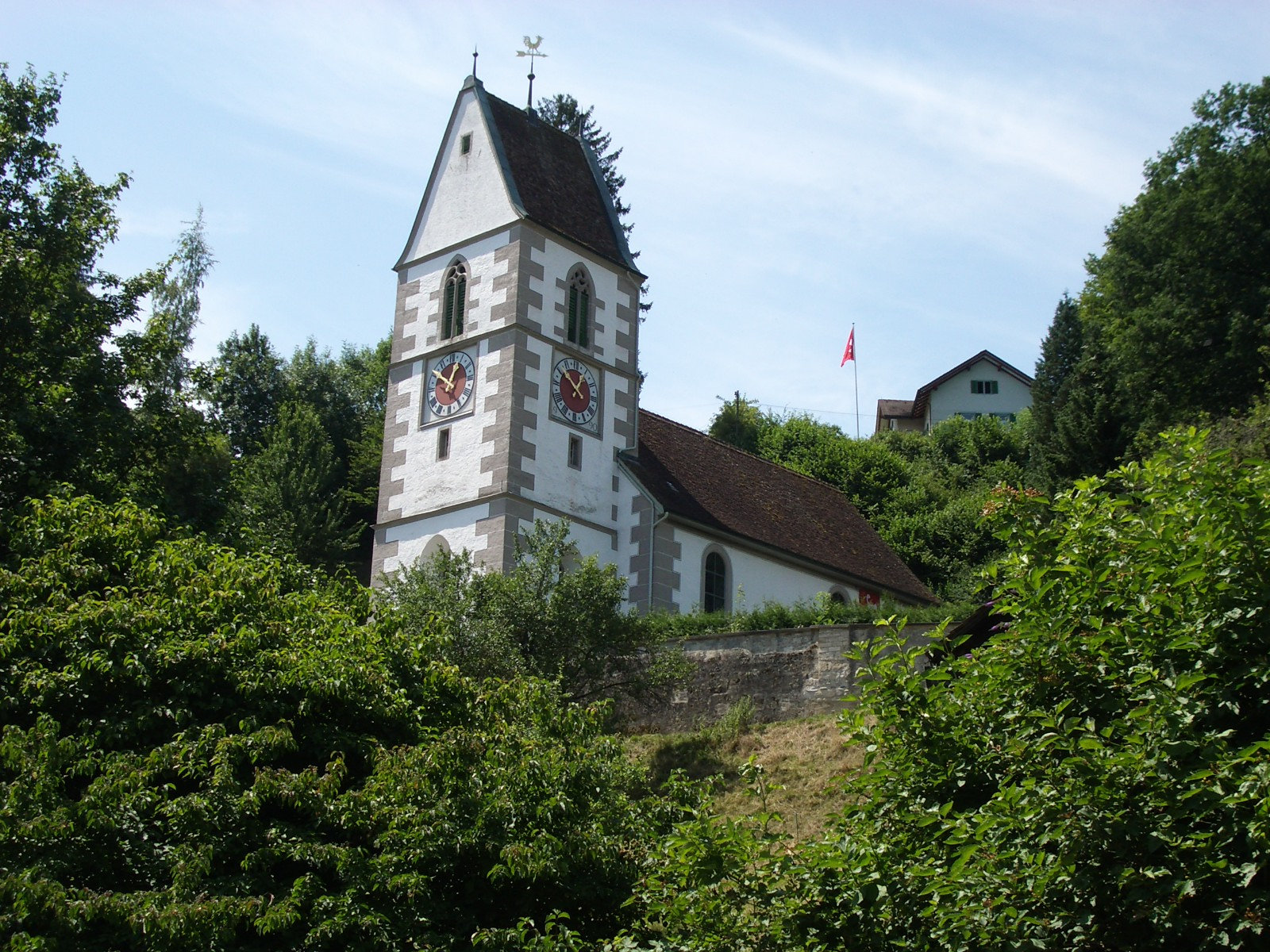 Church, Rorbas ZH, Switzerland